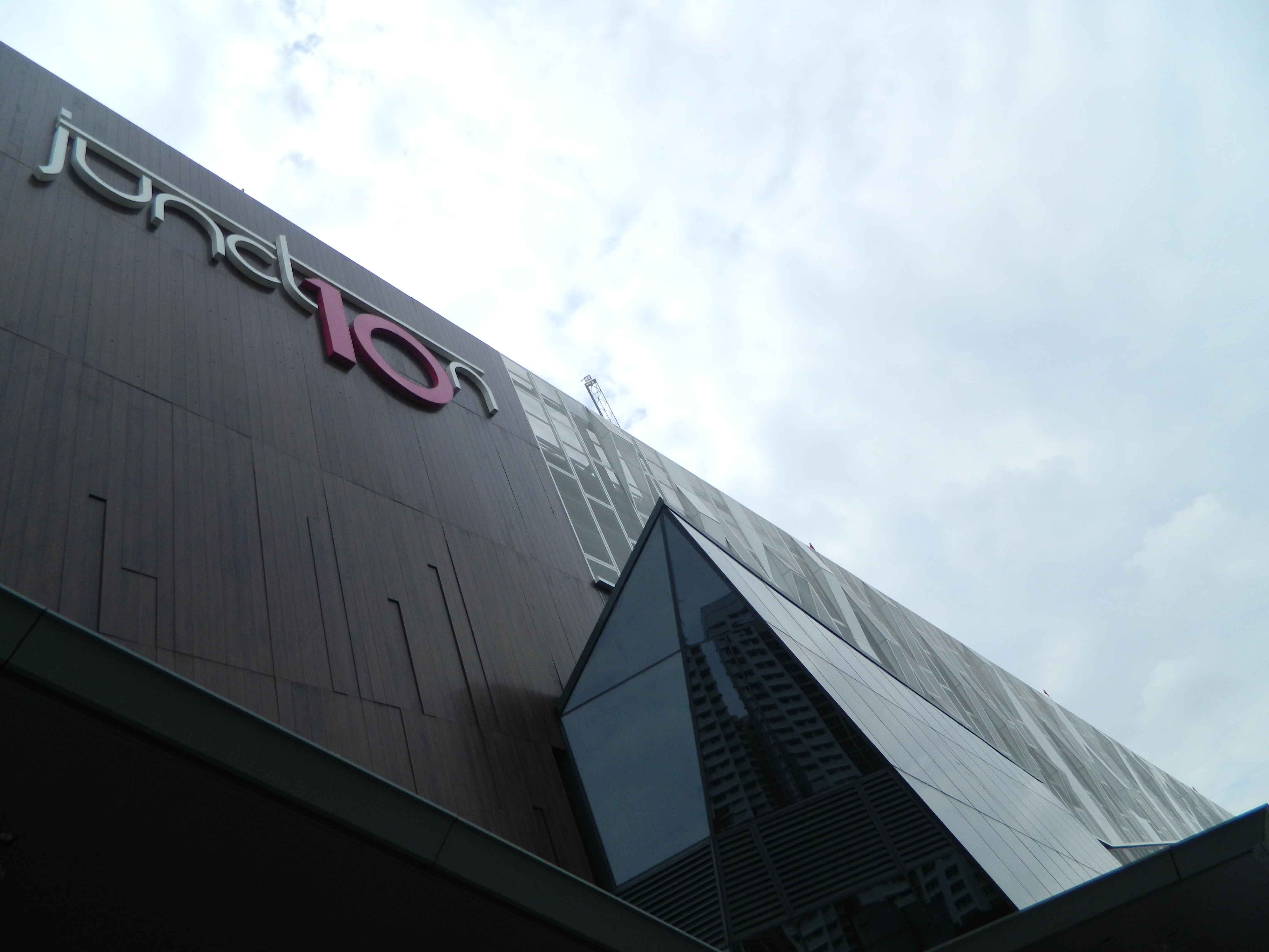 Exterior of the shopping mall Junction 10 in Singapore.